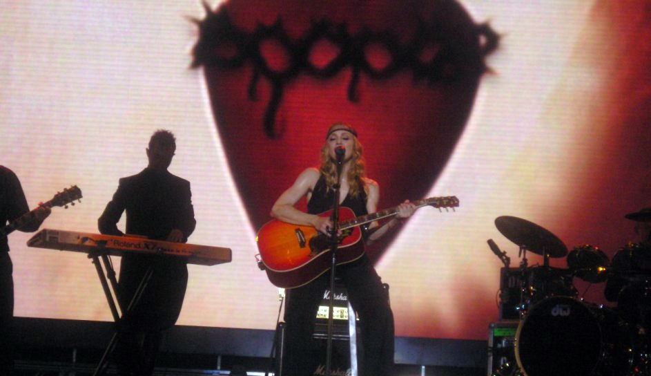 Picture taken at the concert in Manchester